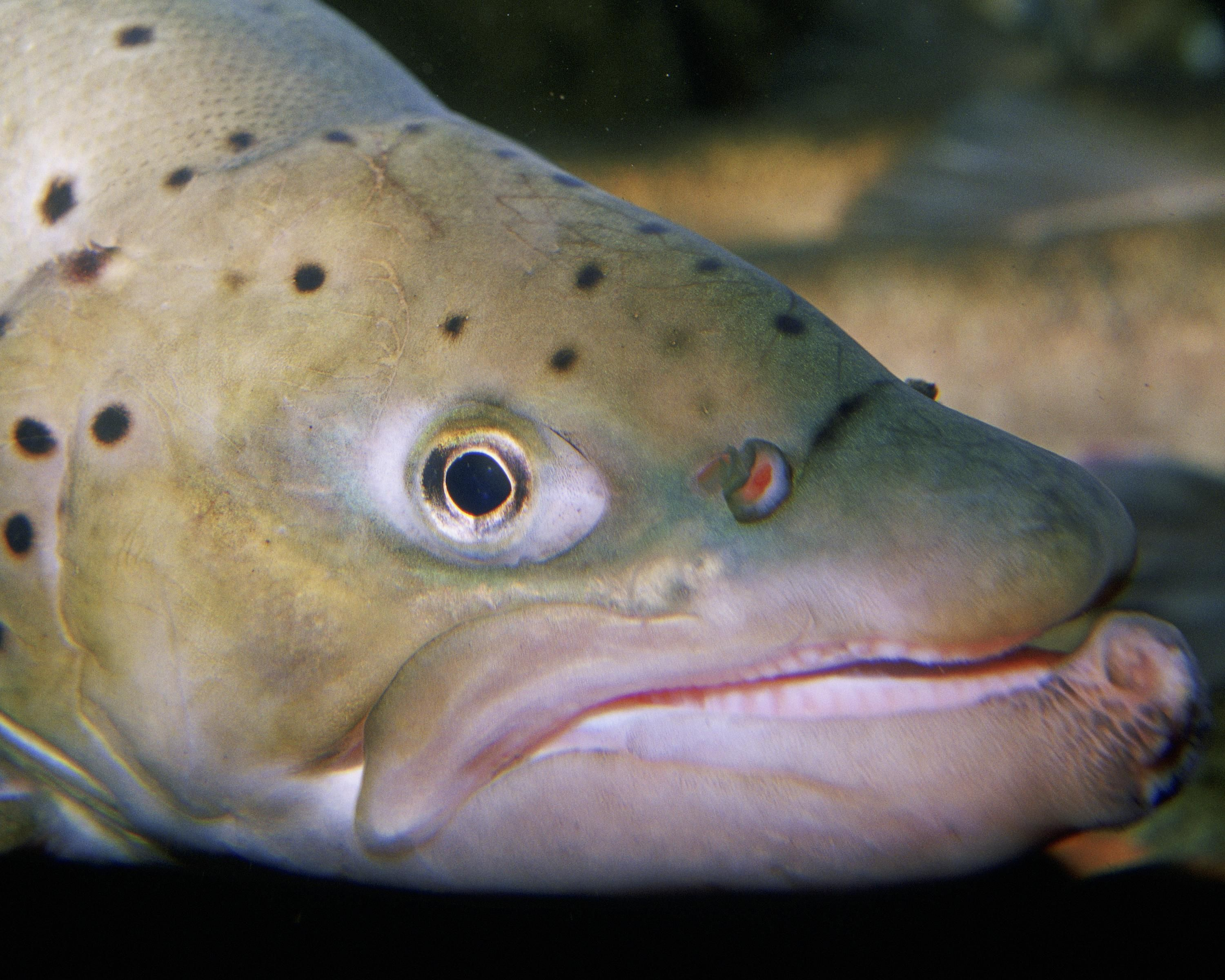 Image title: Close up view of a brown trout fish Image from Public domain images website